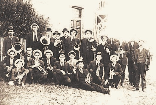 Australia Boolaroo District & Sulphide Band, 1914